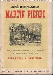 Cover of Martín Fierro, published by Editorial Losada of Buenos Aires.